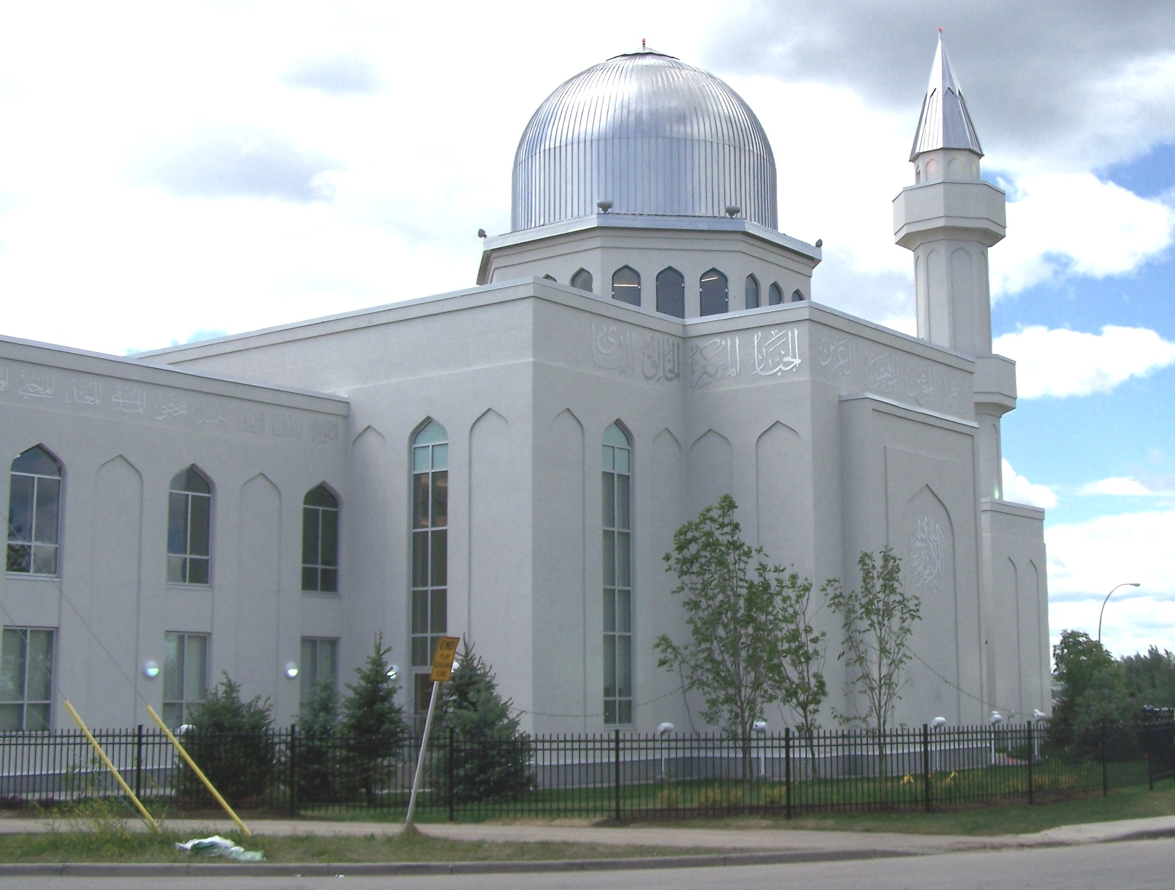 The Baitunnur mosque of the Ahmadiyya Muslim Community located at 4353 54 Avenue NE, Calgary, Alberta, Canada. The mosque was officially opened on July 5, 2008 and this picture was taken on July 11, 2008.